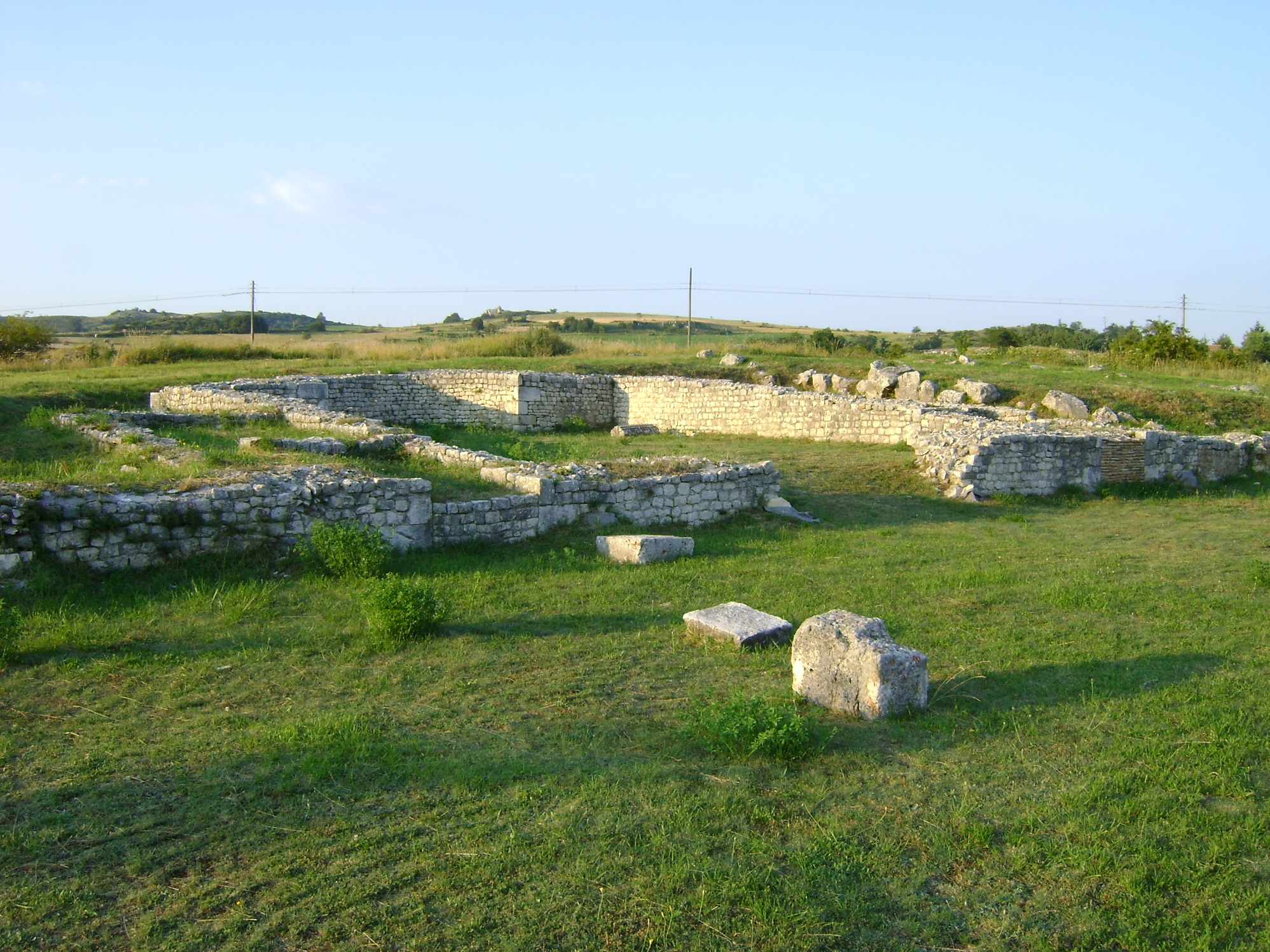 The basilica of the ancient Roman city of Juvanum, Montenerodomo, province of Chieti, Abruzzo